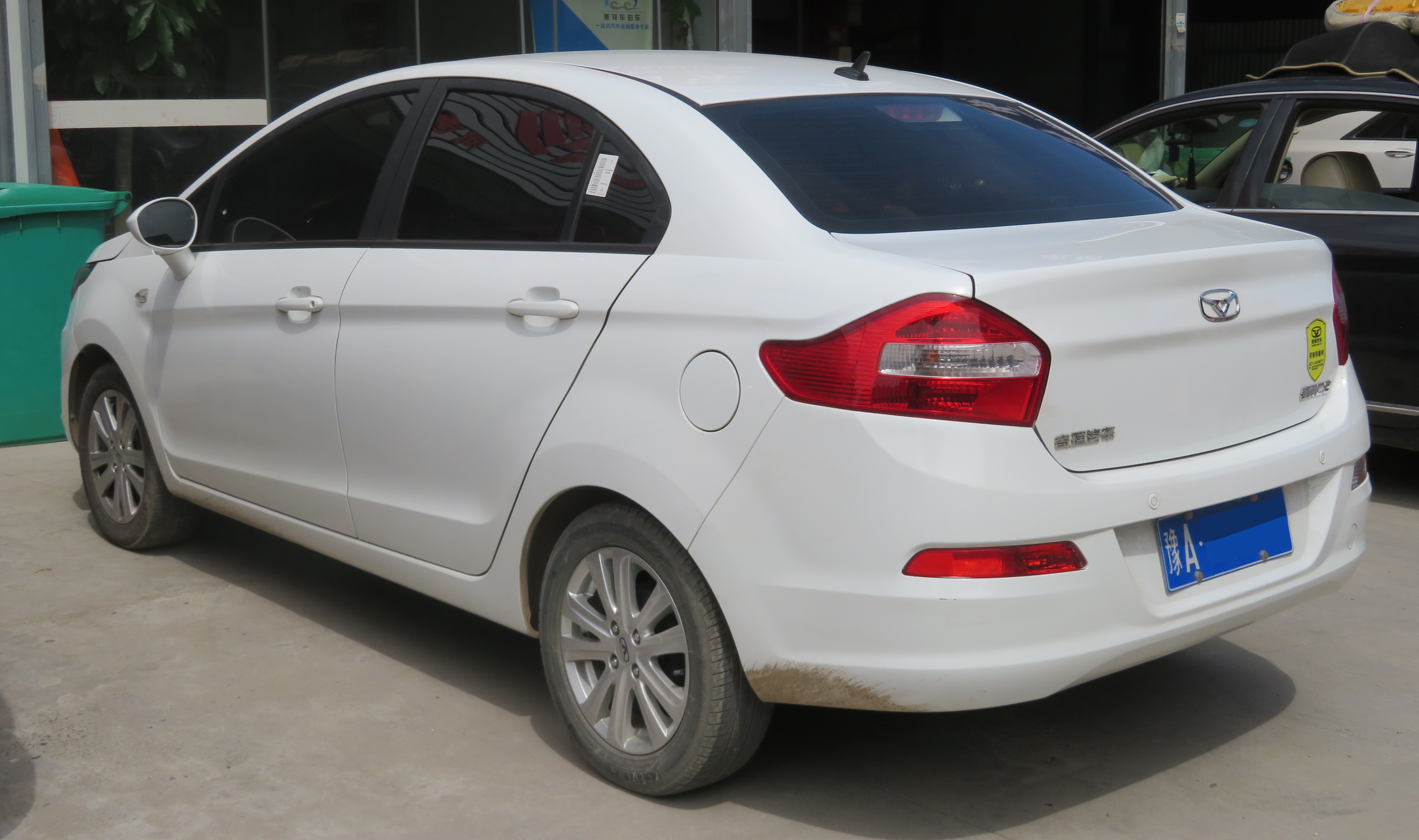 Photographed in Zhengzhou, Henan province, China